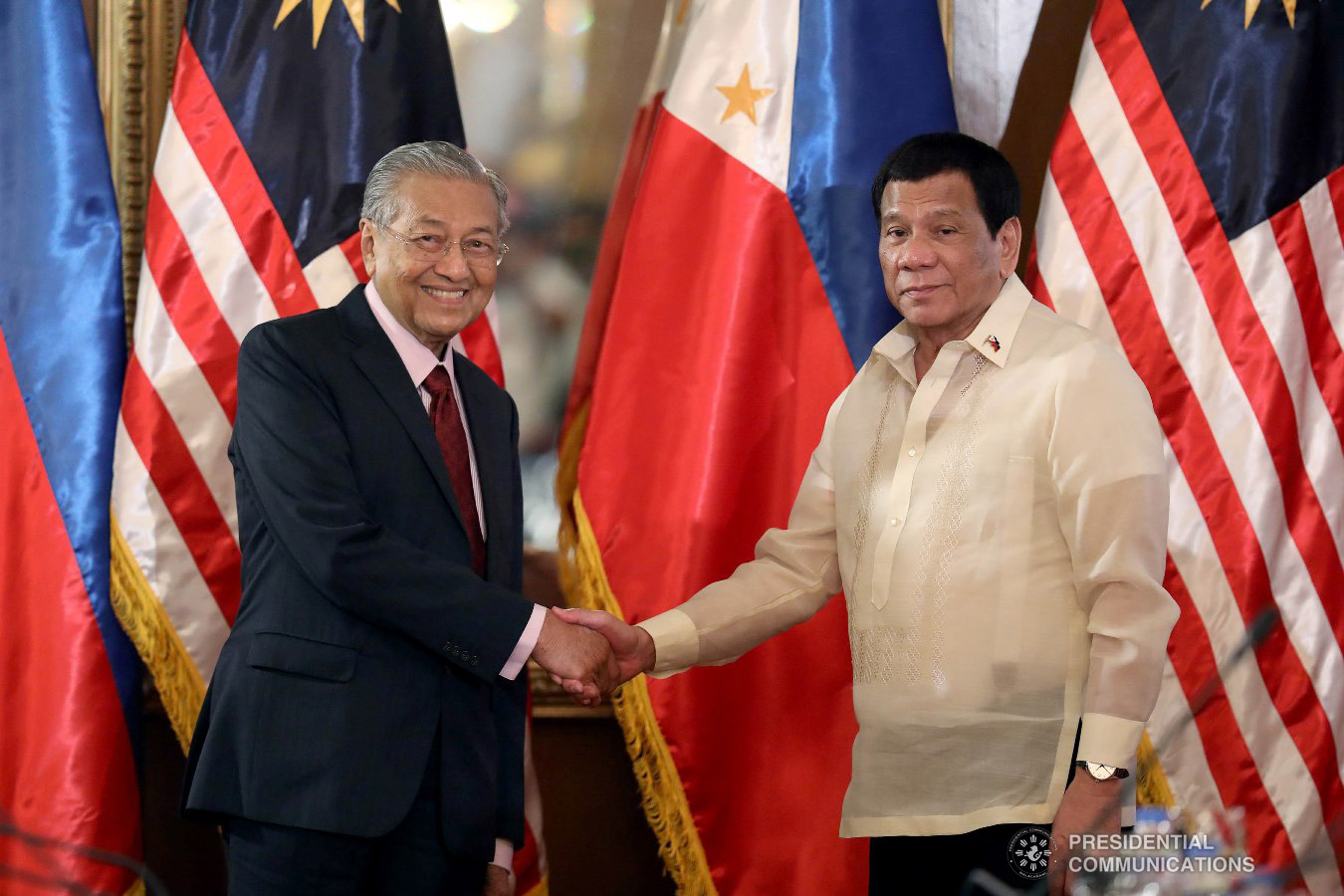 President Rodrigo Roa Duterte and Malaysian Prime Minister Mahathir Mohamad pose for posterity prior to the start of the expanded bilateral meeting at the Malacañan Palace on March 7, 2019.